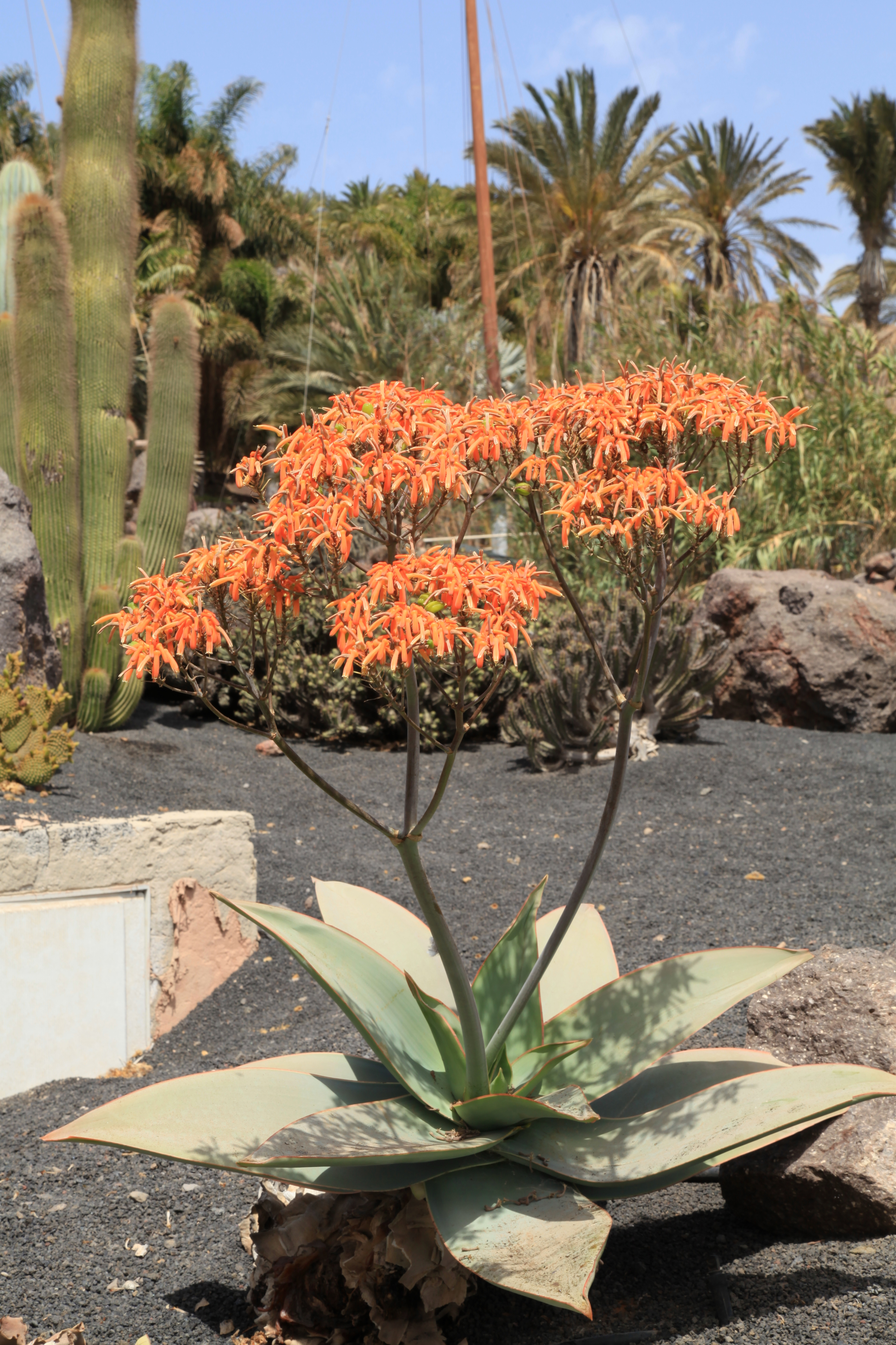 Aloe striata in the Oasis Park in La Lajita, Pájara, Fuerteventura, Canary Islands